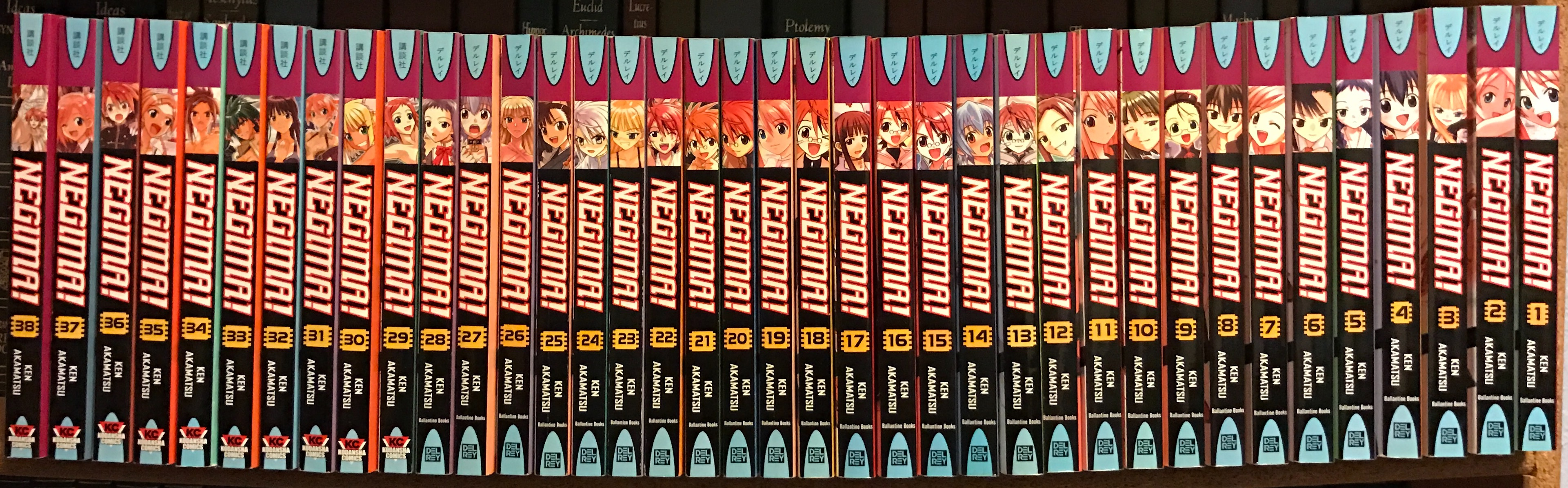 All 38 volumes of the Negima manga as published in English in the US. The change in publishers can be seen beginning with volume 29.